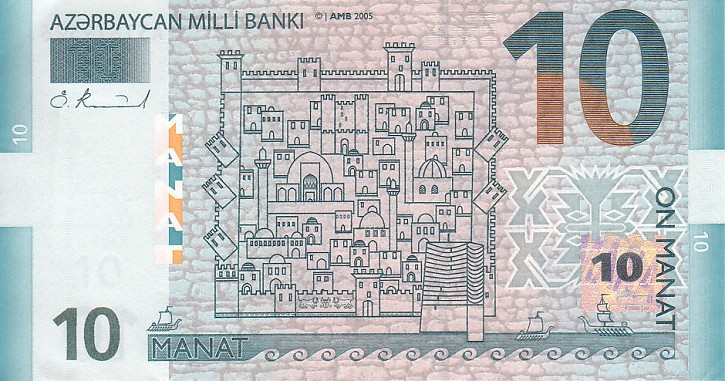 obverse of 10 AZN